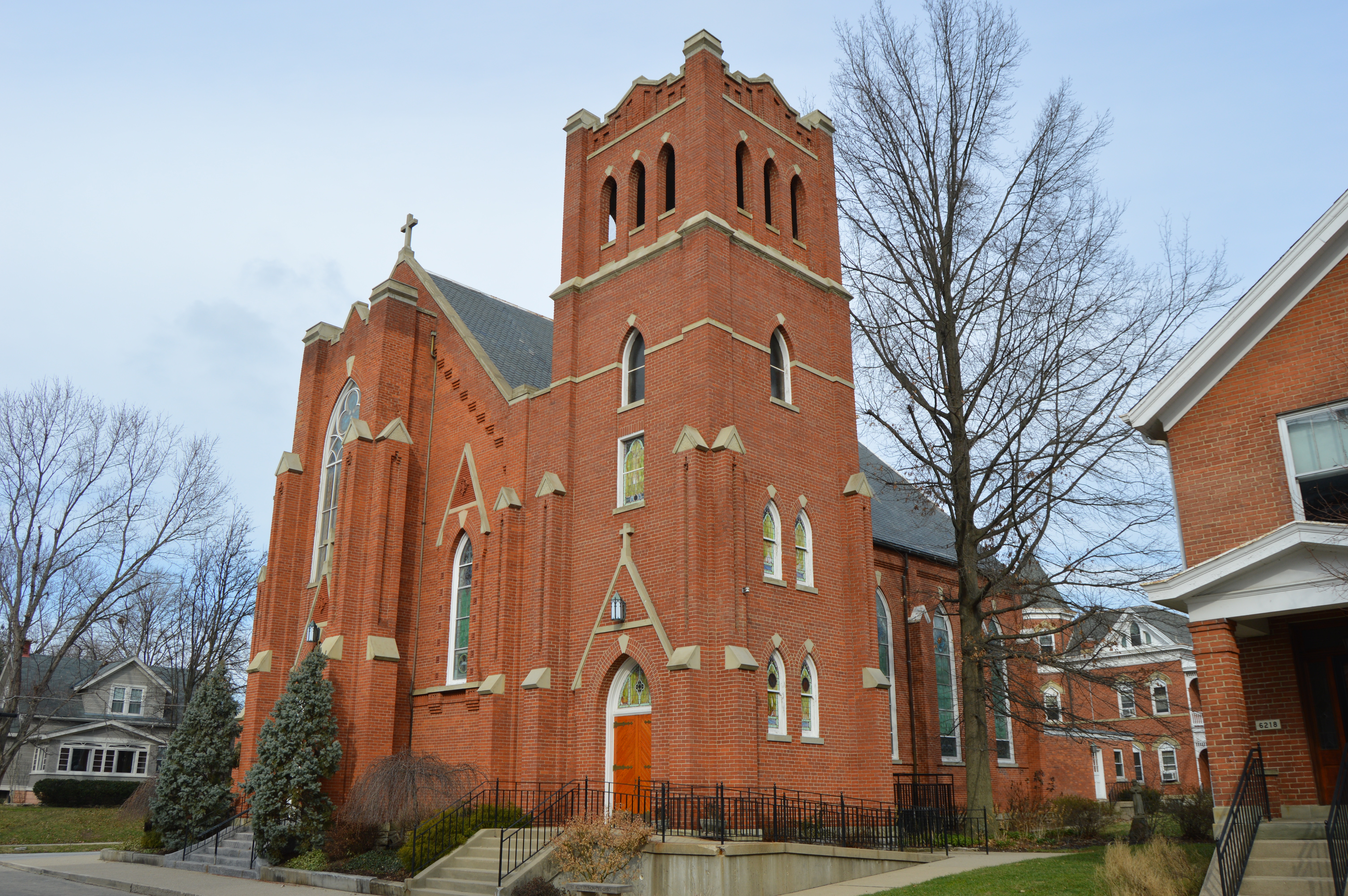 Front and eastern side of St. Aloysius' Catholic Church, located at 6214 Portage Street in the Sayler Park neighborhood of Cincinnati, Ohio, United States. Built in 1888, it is listed on the National Register of Historic Places.